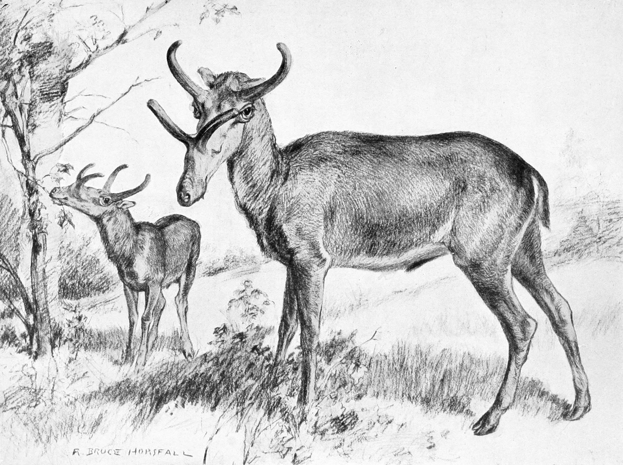 Life restoration of Syndyoceras cooki from W.B. Scott's (1858–1947) A History of Land Mammals in the Western Hemisphere. New York: The Macmillan Company.